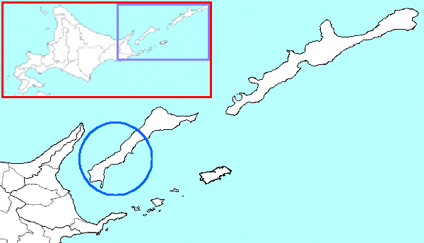 The location of Tomari in Nemuro Subprefecture, Hokkaido Prefecture, Japan.